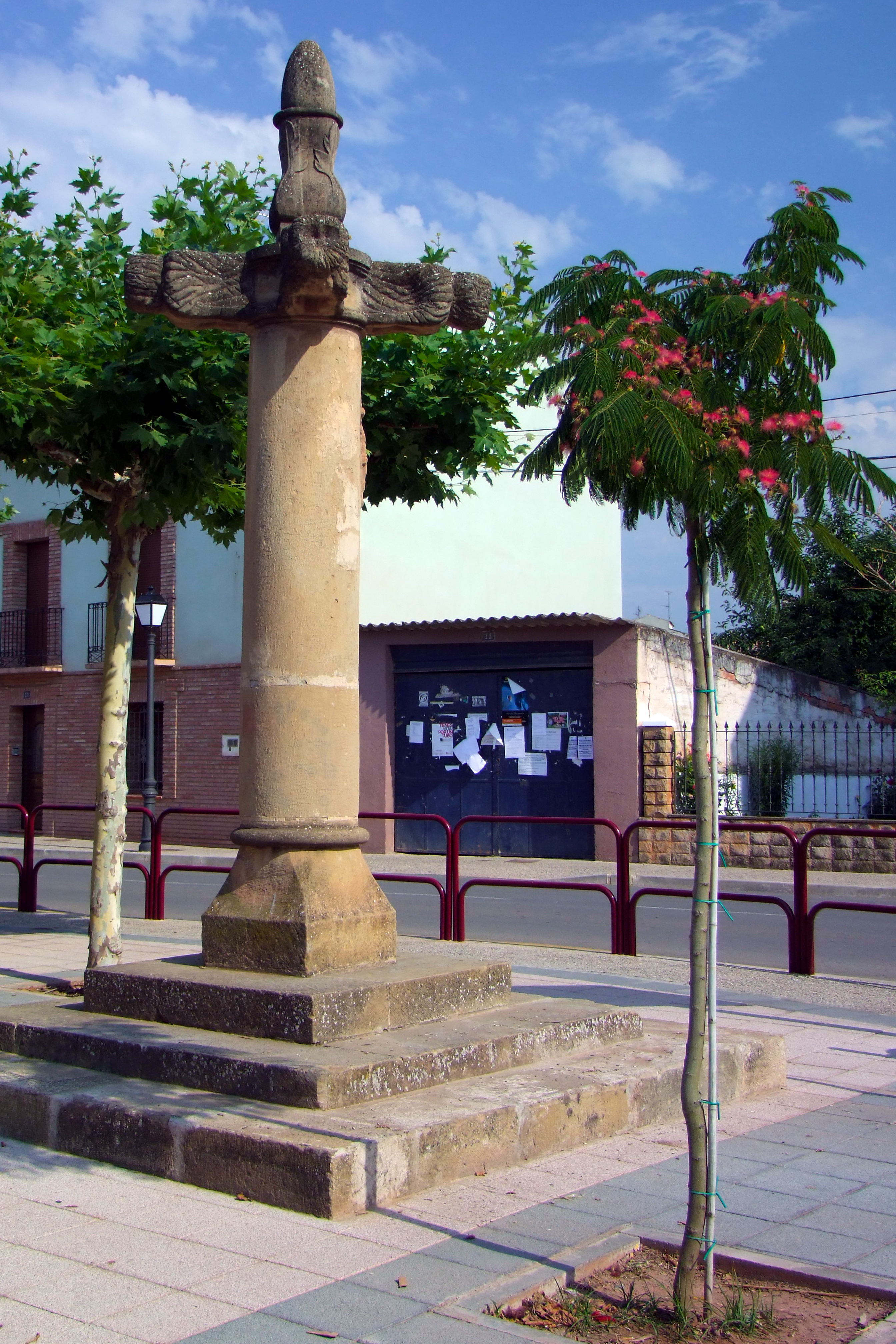 Rollo en la localidad de Huércanos, La Rioja - España